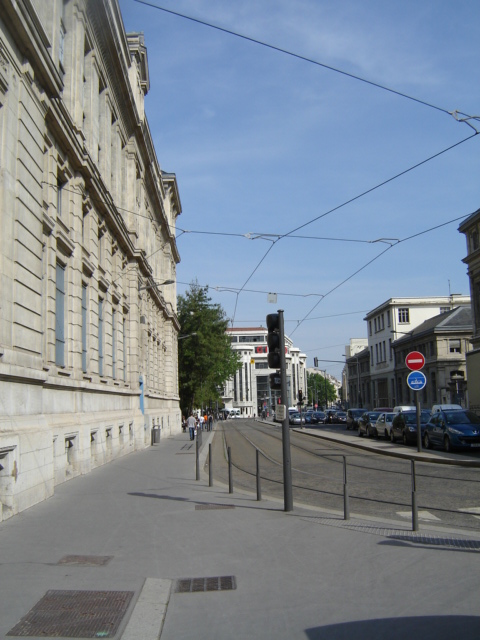 Rue de l'Université, viewed from the Quai Claude Bernard, in the 7th arrondissement of Lyon